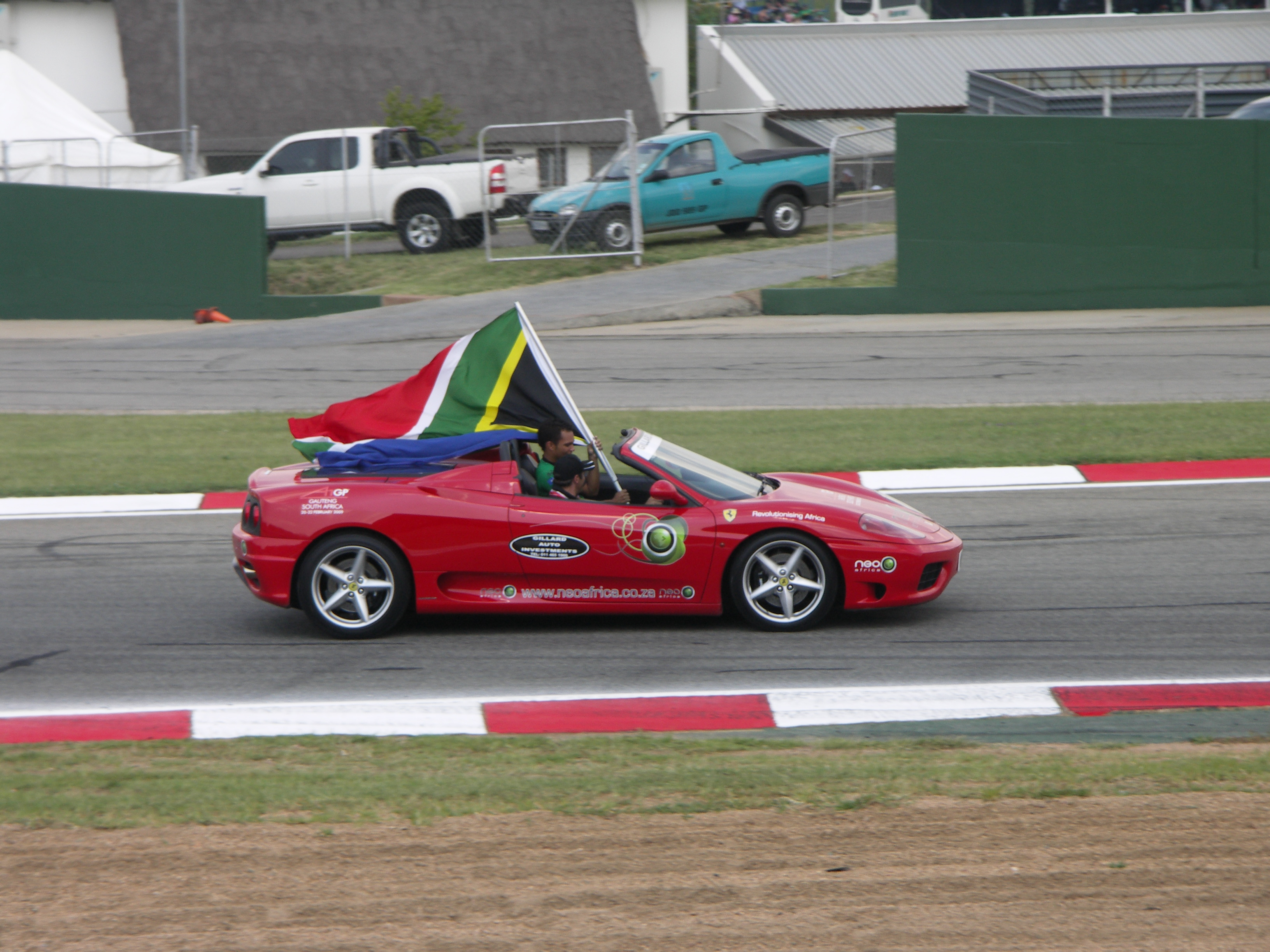 A1 Team South Africa driver Adrian Zaugg, flying the flag of the Republic of South Africa. Kyalami, Gauteng, South Africa during the 2008-09 A1 Grand Prix season